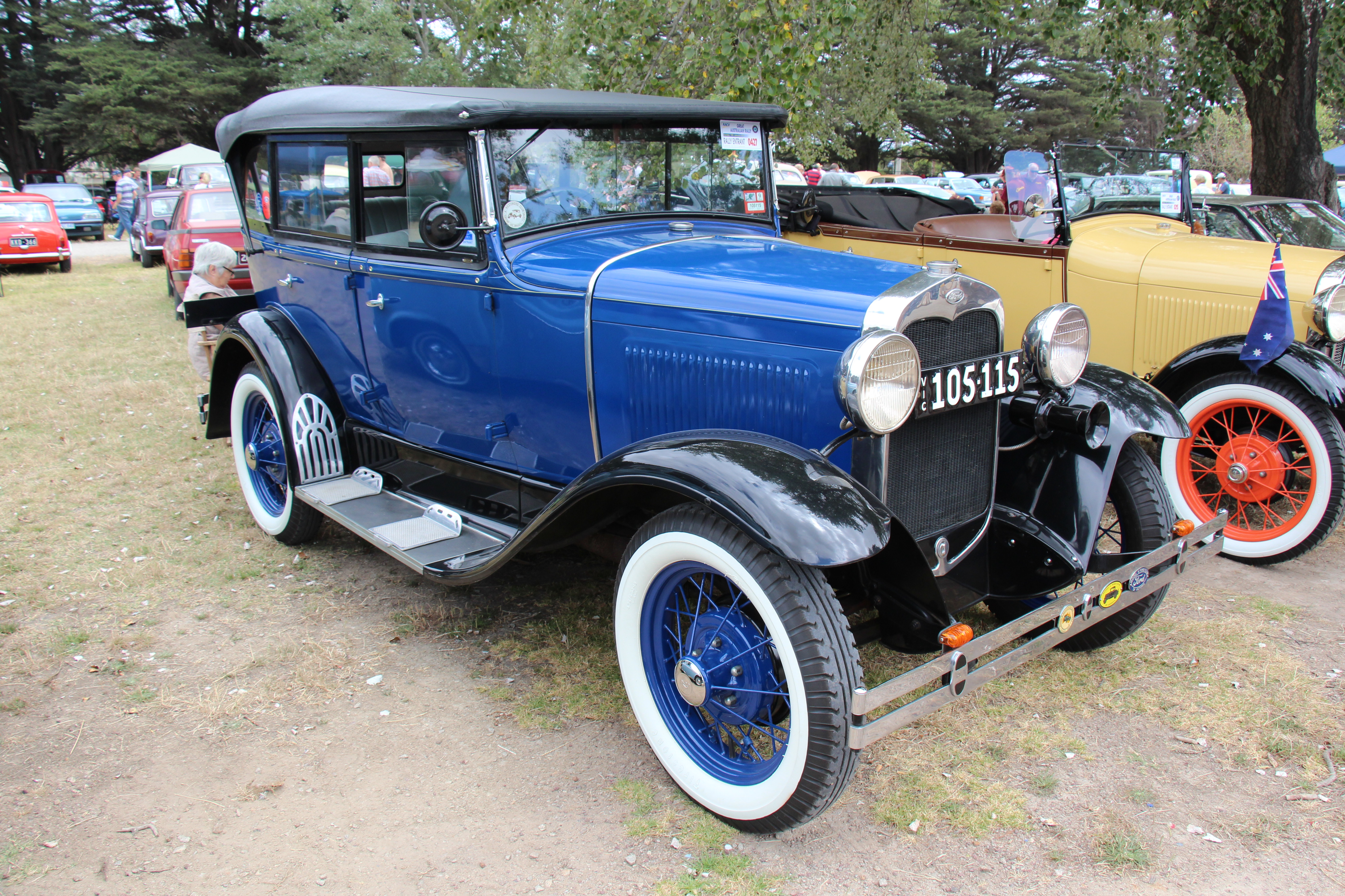 The Model A, built from 1927-1931, replacing the Model T . The Model A was the first Ford to use the standard set of driver controls with conventional clutch and brake pedals; throttle and gearshift. Previous Ford models used controls that had become uncommon to drivers of other makes. The Model A's fuel tank was located in the cowl, between the engine compartment's fire wall and the dash panel. It had a visual fuel gauge, and the fuel flowed to the carburetor by gravity. Available in a wide variety of body styles. Differences through the years; 1928; old style fluted headlight lenses, shaped bumper 1929; new style headlight lenses 1930; new shaped cowl, taller radiator, bumper now straight 1931; Stainless steel Ford logo on radiator (Blue in 1930), one piece splash apron above running boards (2 piece in 1930) By the time the Model A was released, Ford Australia had its own production lines and was pressing its own panels, 32387 Model As were built in Australia Engine; 201 cu in 4 cyl